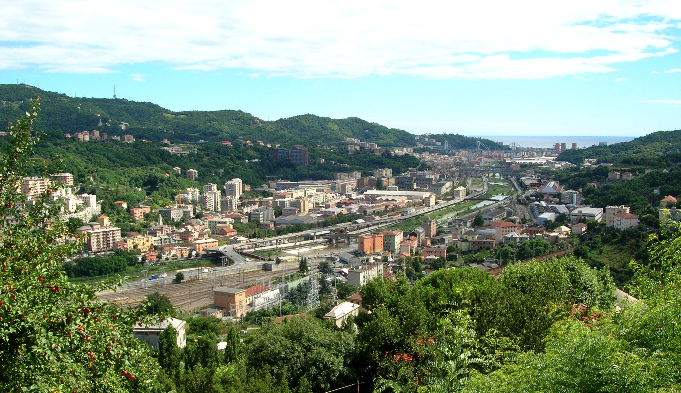 Genoa (Italy), quarter of Bolzaneto, view of Polcevera valley from Murta